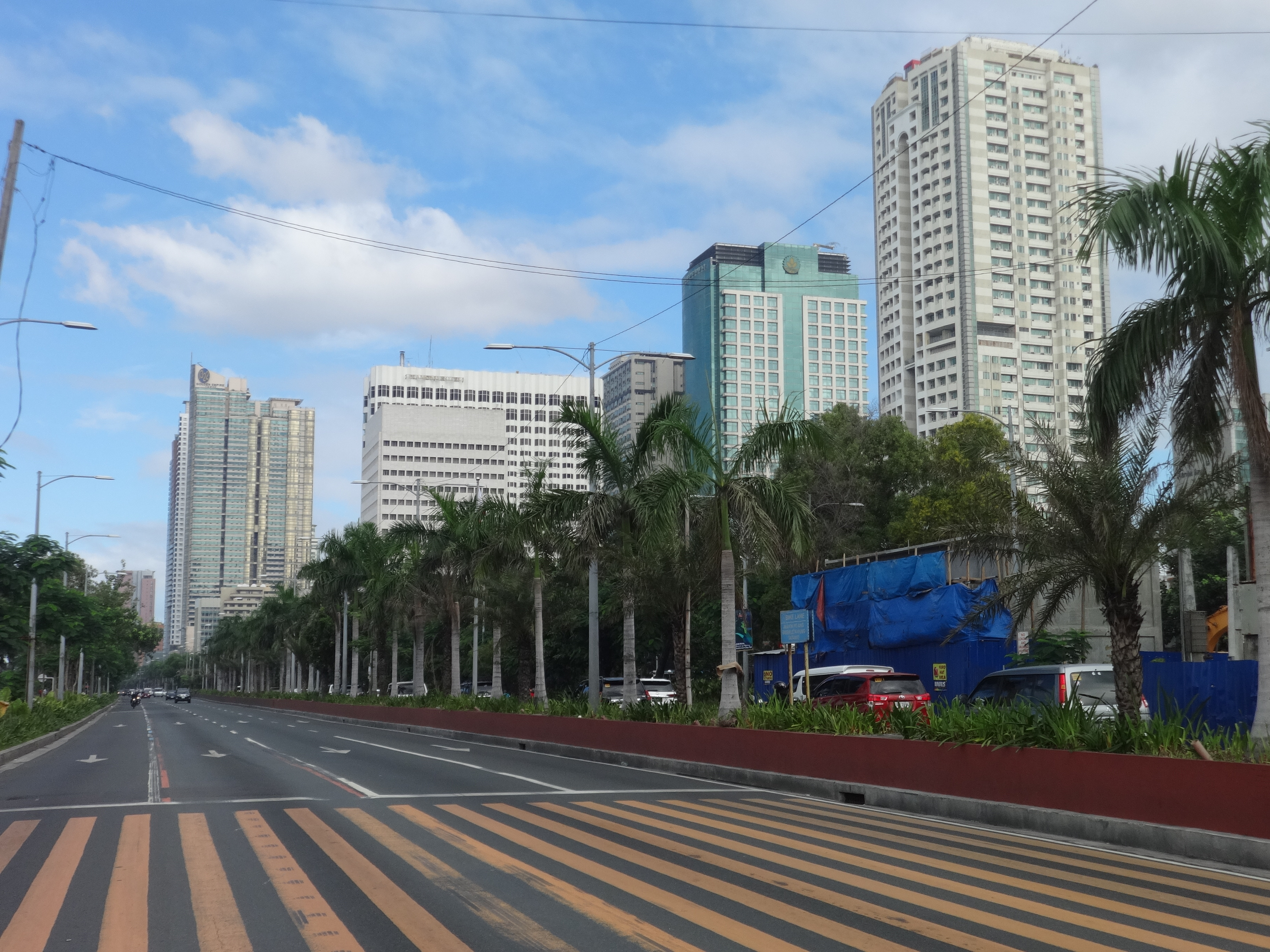 Roxas Boulevard in Malate, Manila